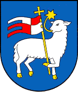 Coat of arms of Trenčín, Slovakia